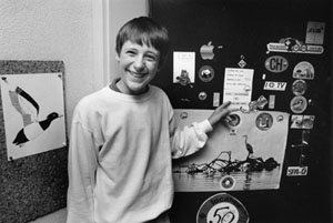 Julien Perrot